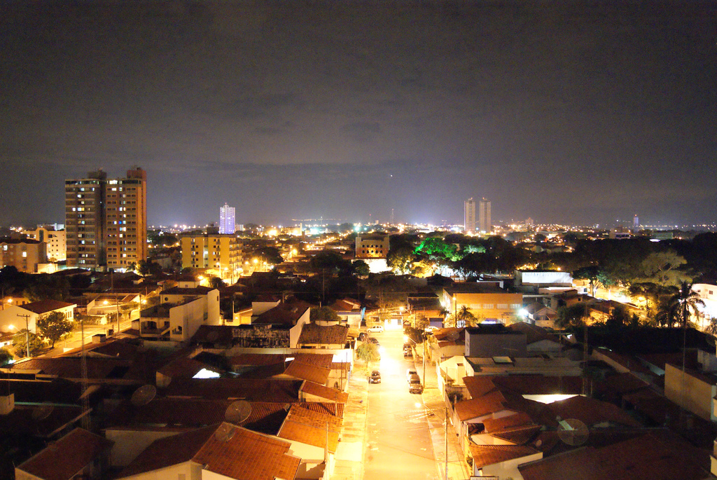 Partial nocturn view of Indaiatuba, São Paulo, Brazil.